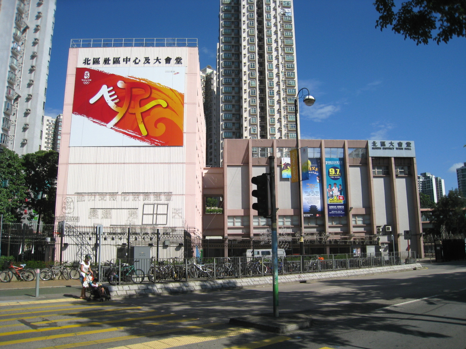 North District Town Hall 北區社區中心及大會堂